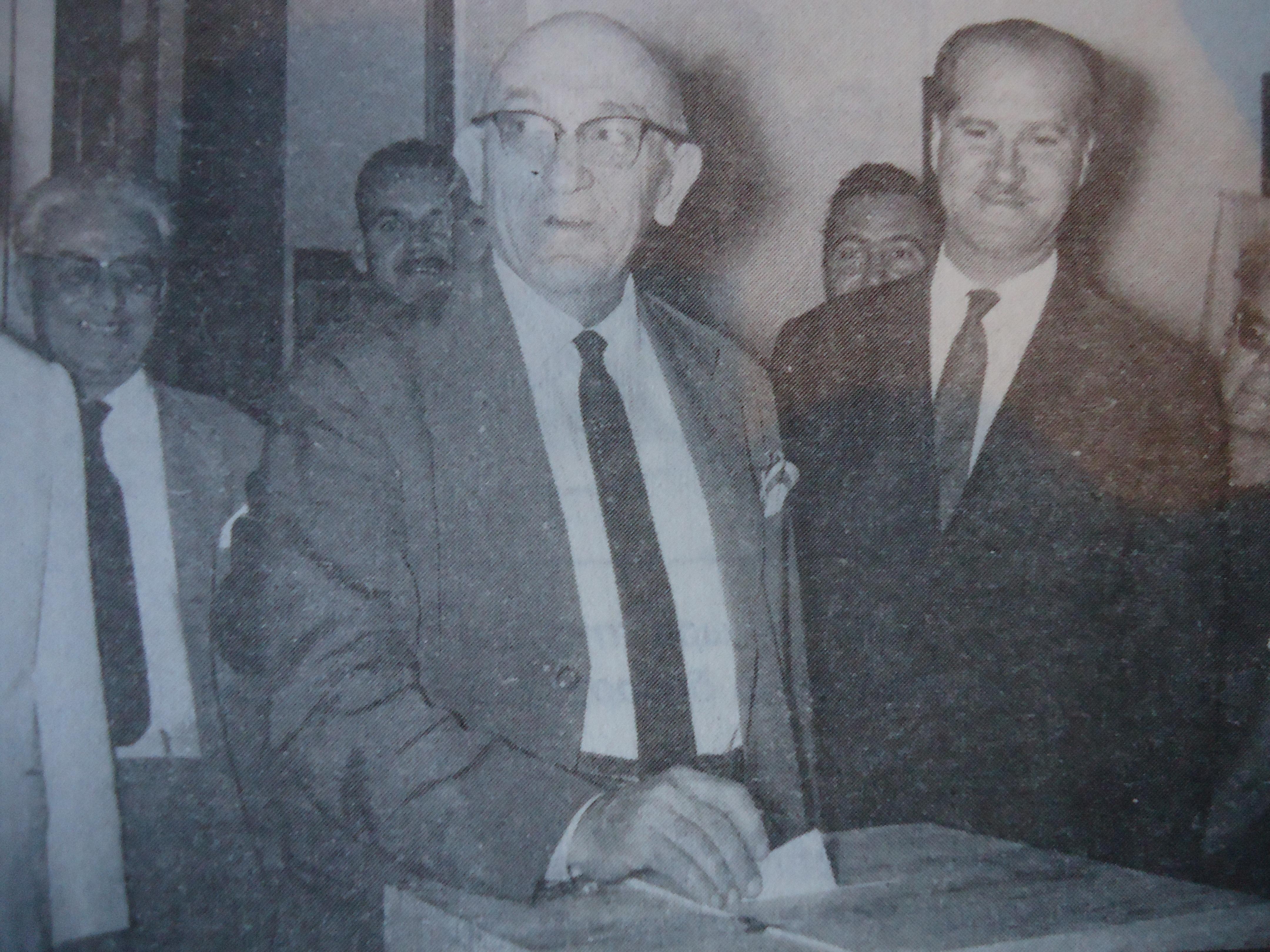 Nikos Kitsikis, Greek Civil engineer and academic